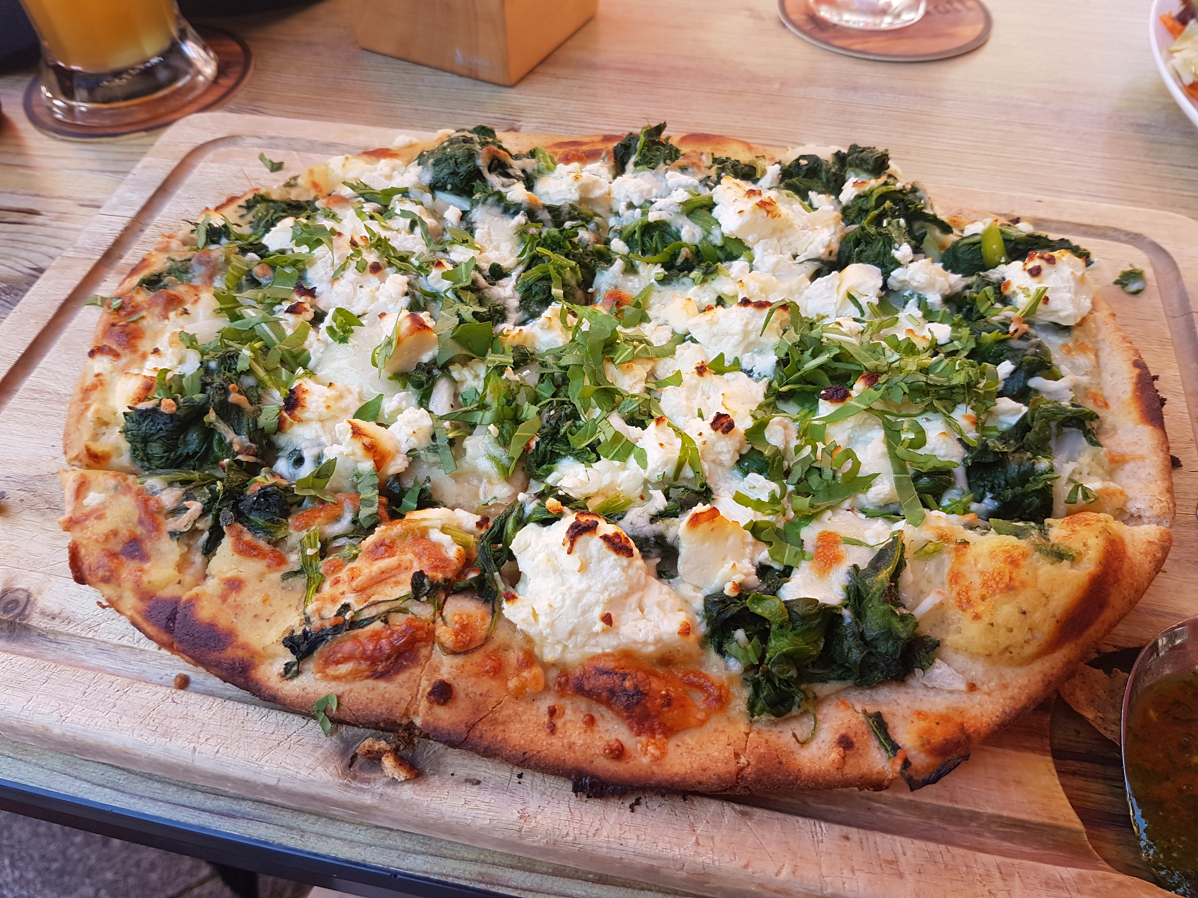 Rhöner Plootz, stone oven cake with potato and sour cream cream, onions, leaf spinach, Gouda and shepherd's cheese. Photographed in the restaurant Platzhisrsch in Bad Kissingen.